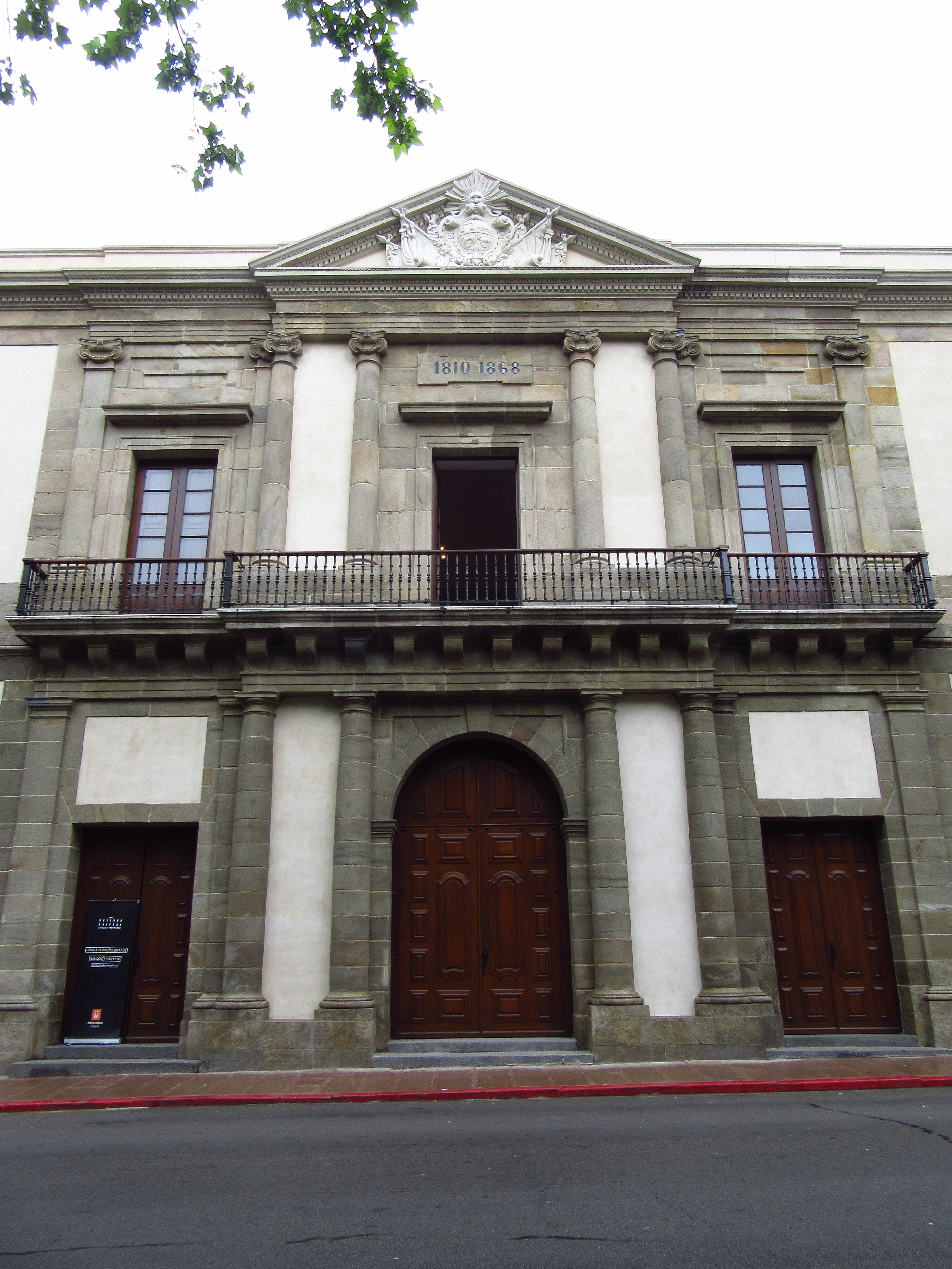 Montevideo.